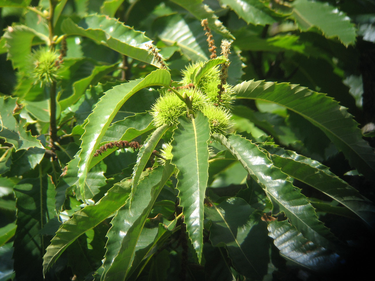 Castanea sativa foliage, old male catkins and young fruit. (same tree as File:Castanea sativa1.jpg) Photo MPF